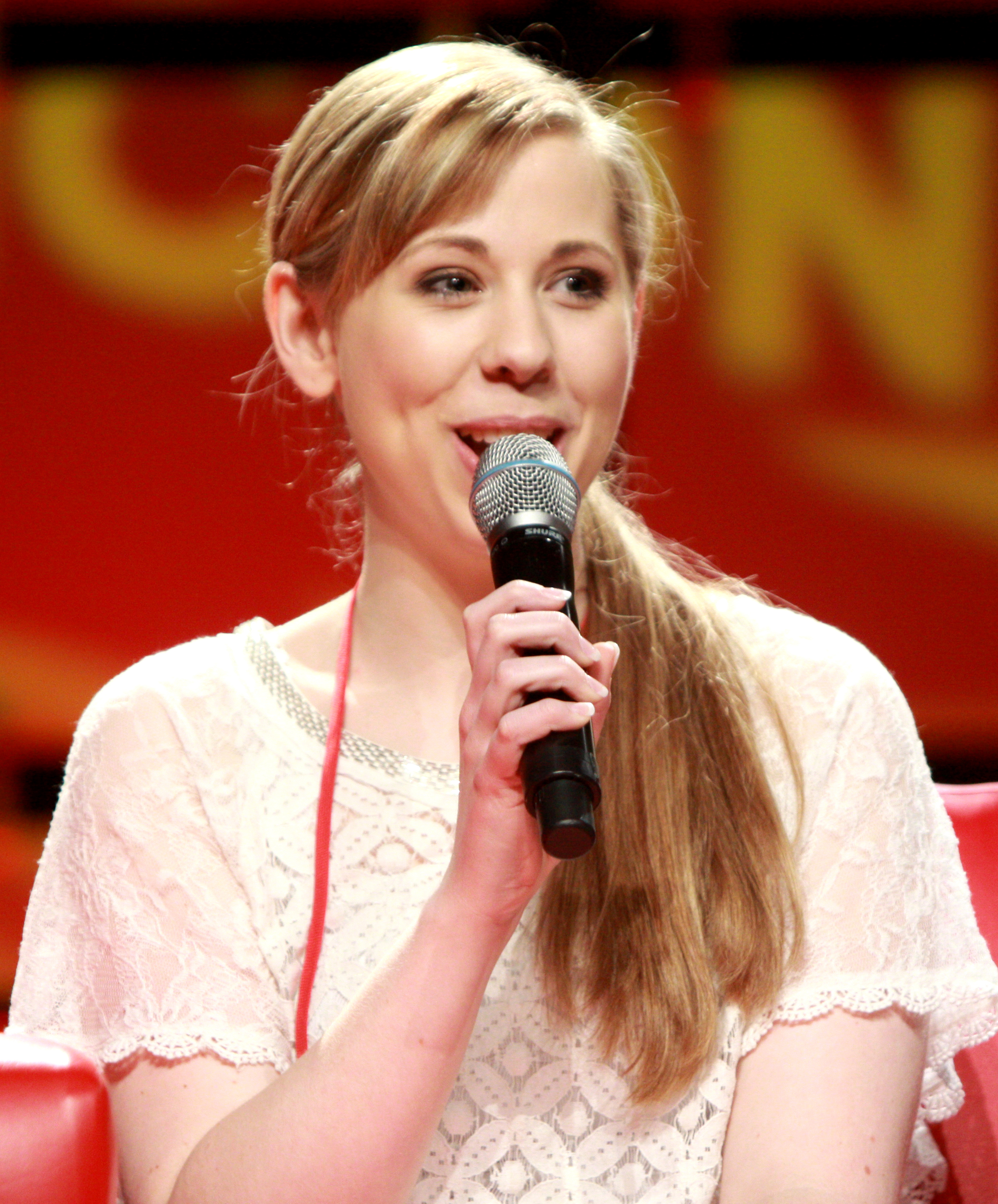 Alexis Tipton at the 2013 Phoenix Comicon in Phoenix, Arizona.